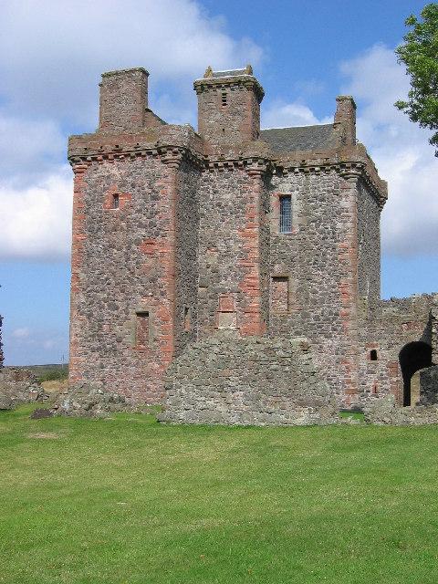 Balvaird Castle, Perth & Kinross